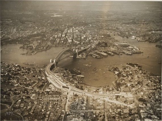 Sydney and Sydney Harbour Bridge taken from North Shore, 19 March 1932